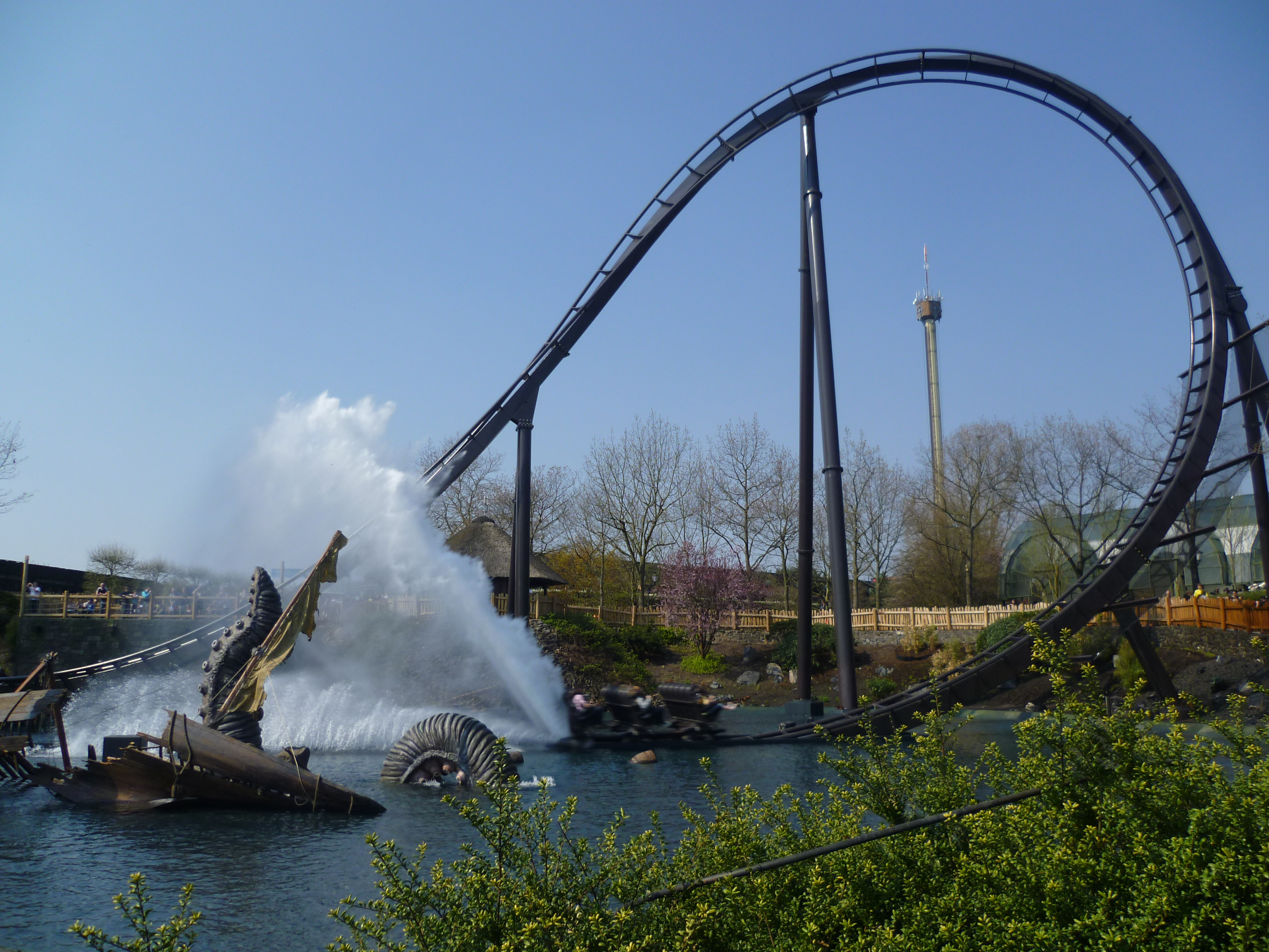 Dive Coaster KRAKE